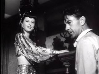 Cropped screenshot of Barbara Stanwyck and Gary Cooper from the trailer for the film Ball of Fire